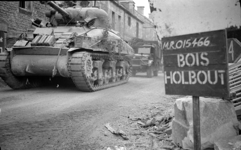 THE BRITISH ARMY IN NORMANDY 1944. A Sherman tank moves through Bois Holbout, during the advance to Falaise.